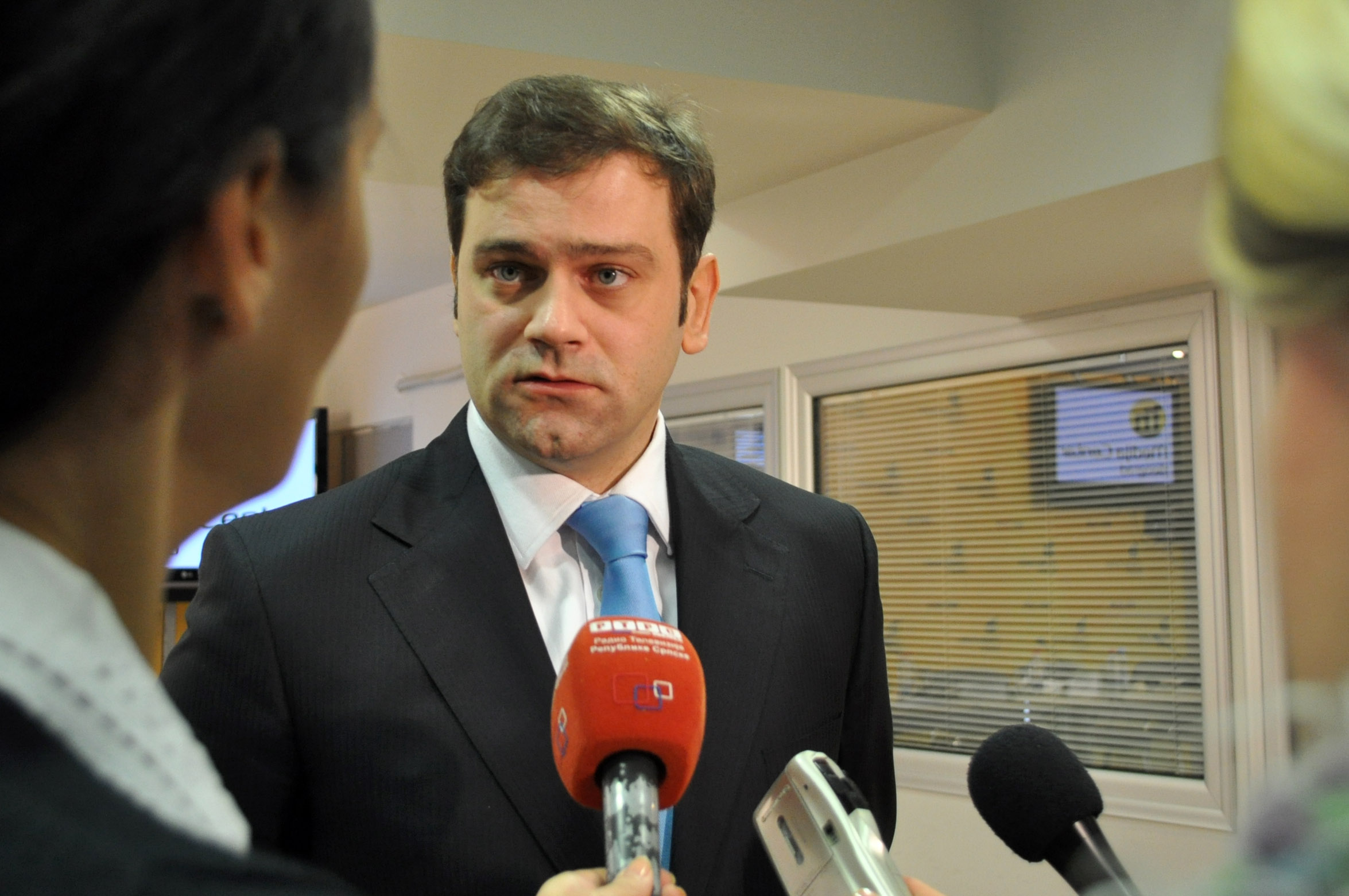 Borko Stefanović